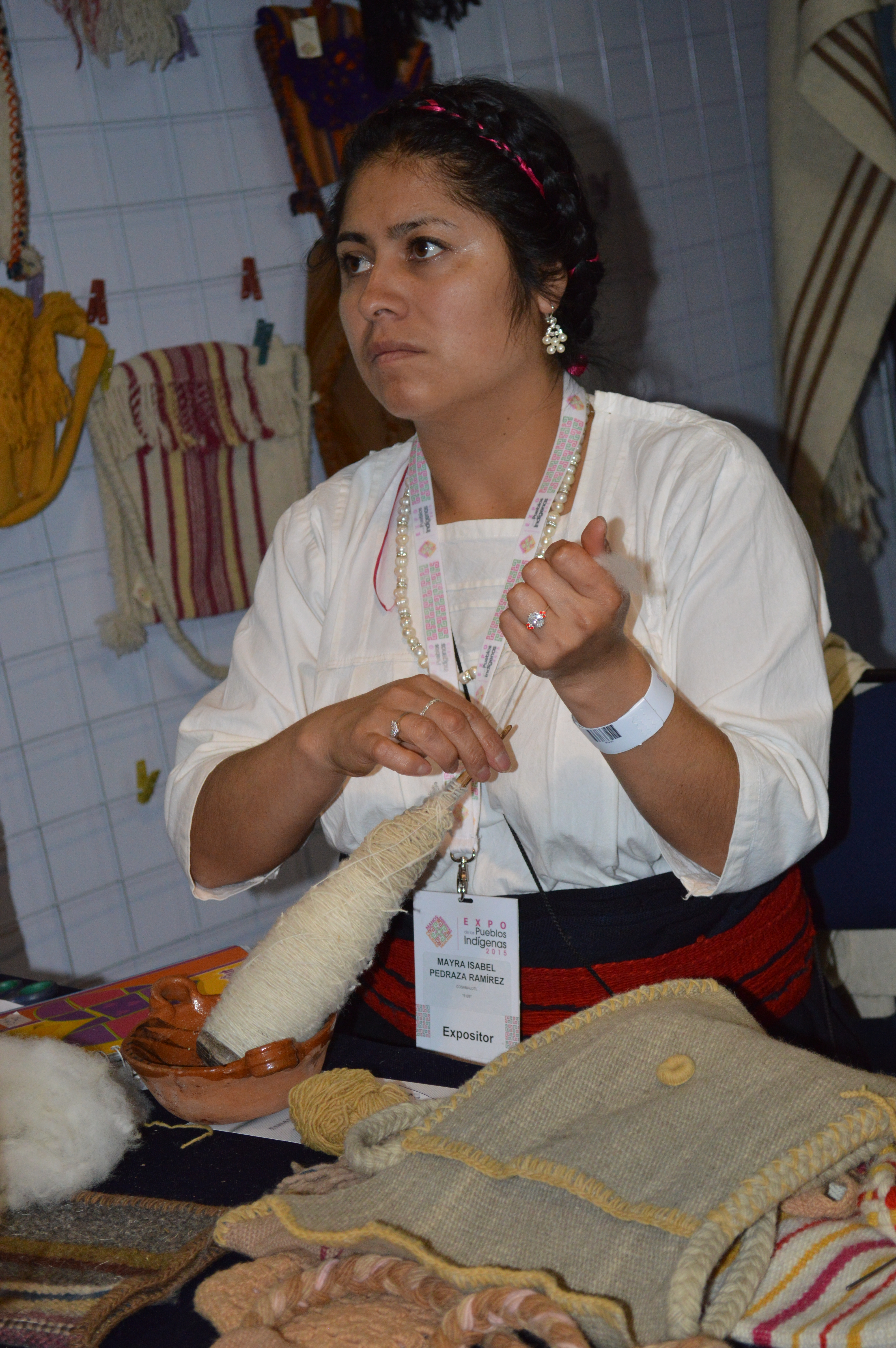 Woman spinning yard from at the 2015 Expo de los Pueblos Indígenas in Mexico City